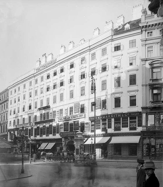 The house on Graben, where Mozart lived.